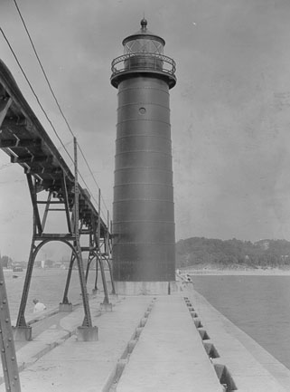 U.S. Coast Guard Archive Photo of Grand Haven Rear Range Light, Michigan